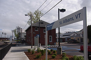 Amtrak station in St. Albans, Vermont